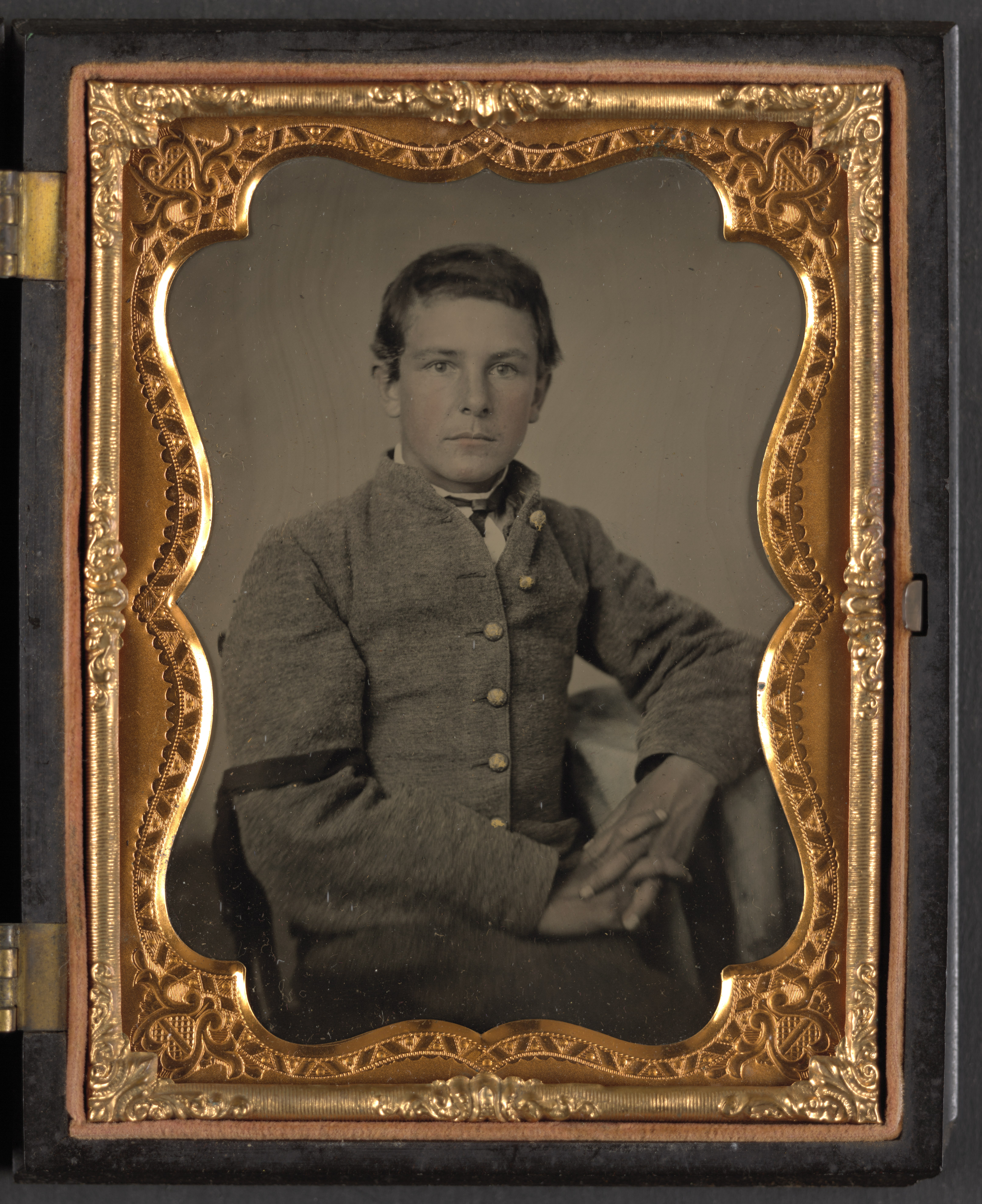 Title: Private Thomas P. Devereux of Co. D, 43rd North Carolina Infantry Regiment in uniform with mourning ribbon Abstract/medium: 1 photograph : hand-colored tintype ; plate 107 x 82 mm (quarter plate format), case 125 x 101 mm.